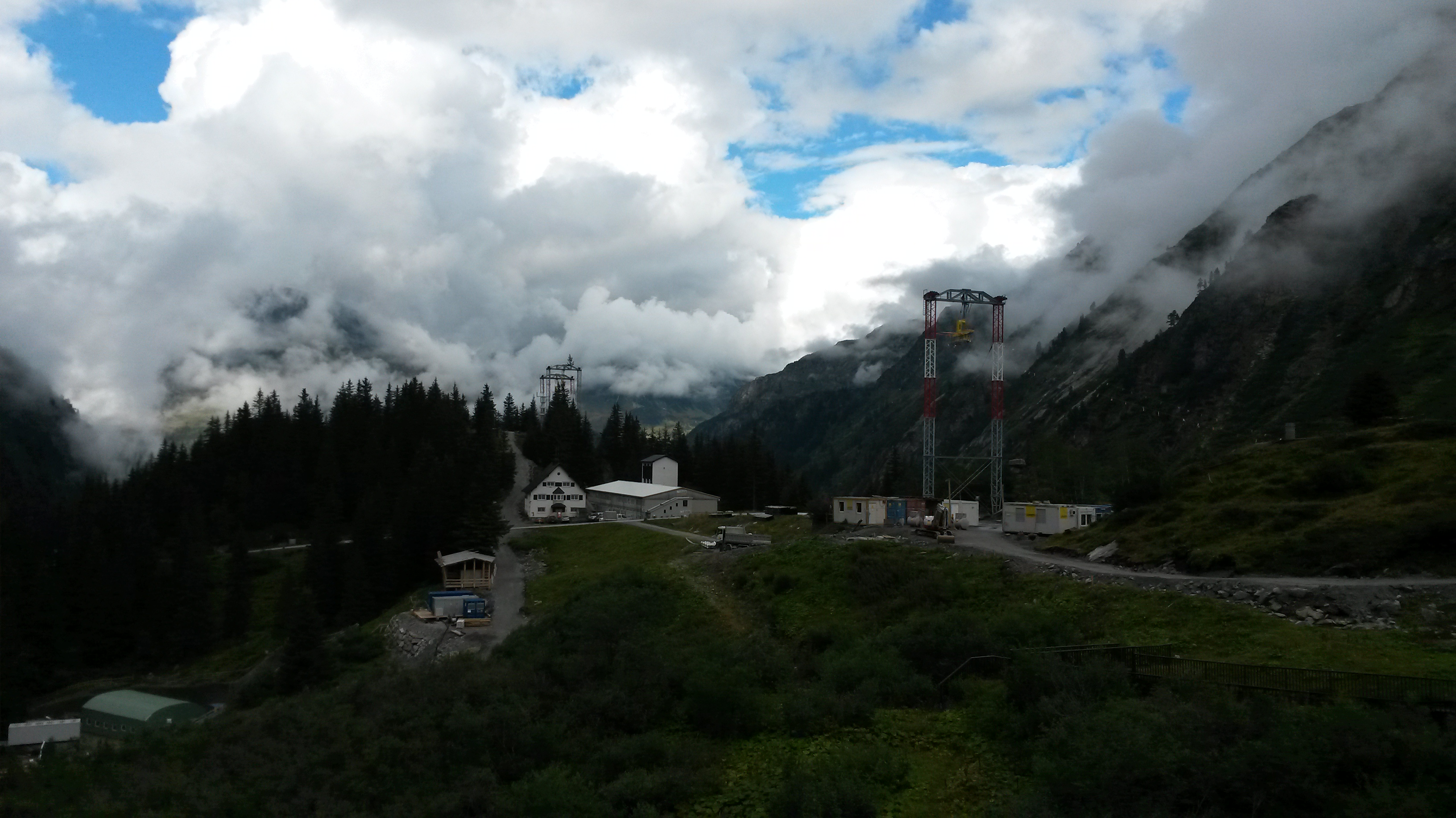 Topstation of the ropeway for the construction of the Obervermuntwerk II (pumped-storage power plant) in Partenen, Vorarlberg, Austria, 1741 masl